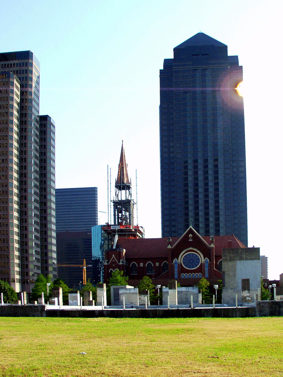 outer left: 2100 Ross Avenue left: Lincoln Plaza middle: Cathedral Santuario de Guadalupe (orig. Cathedral of the Sacred Heart)(Dallas, TX); Cornerstone set in 1898 finally gets the originally planned steeple in 2005 right: Trammell Crow Center